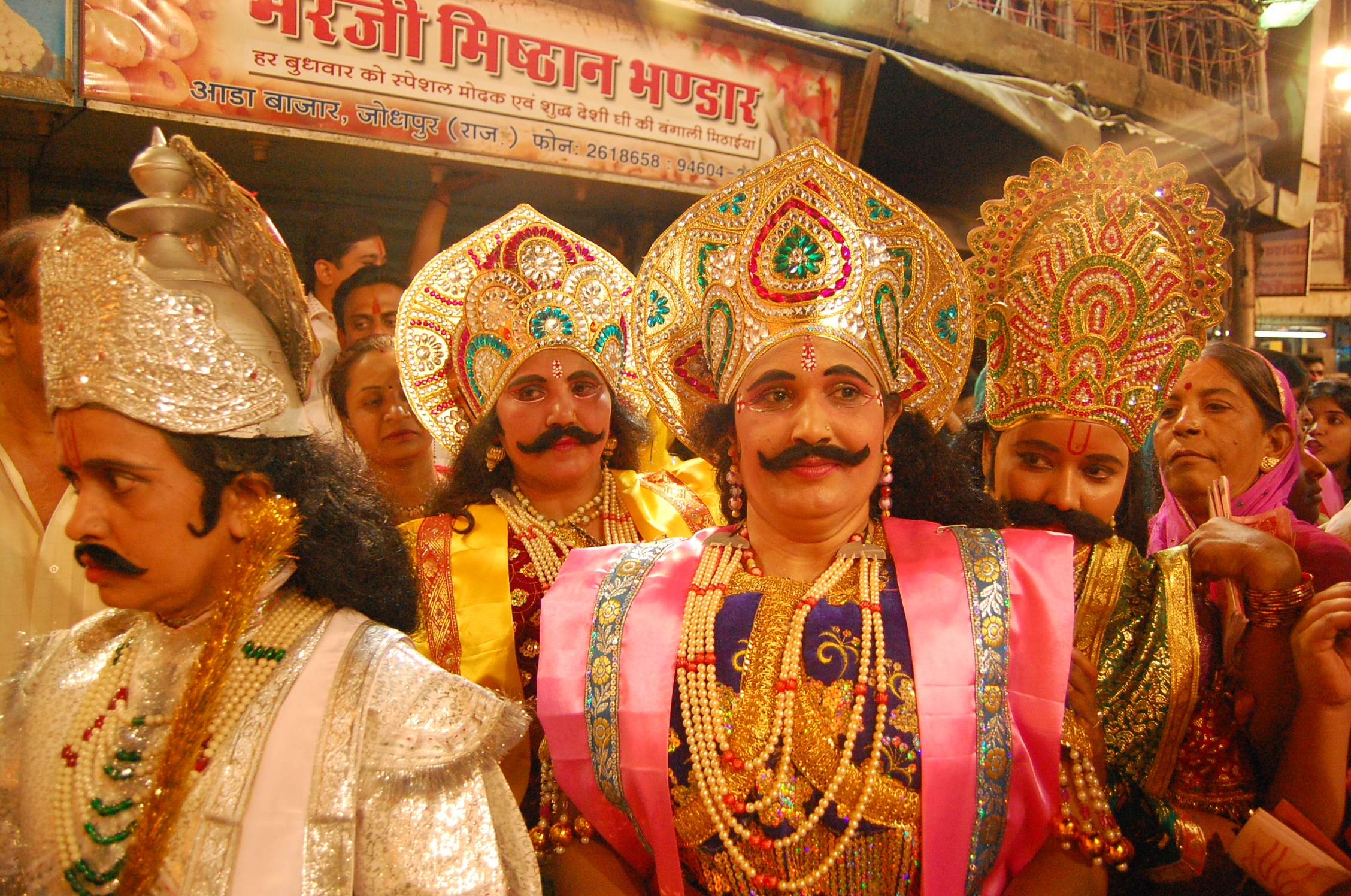 women in masquerade